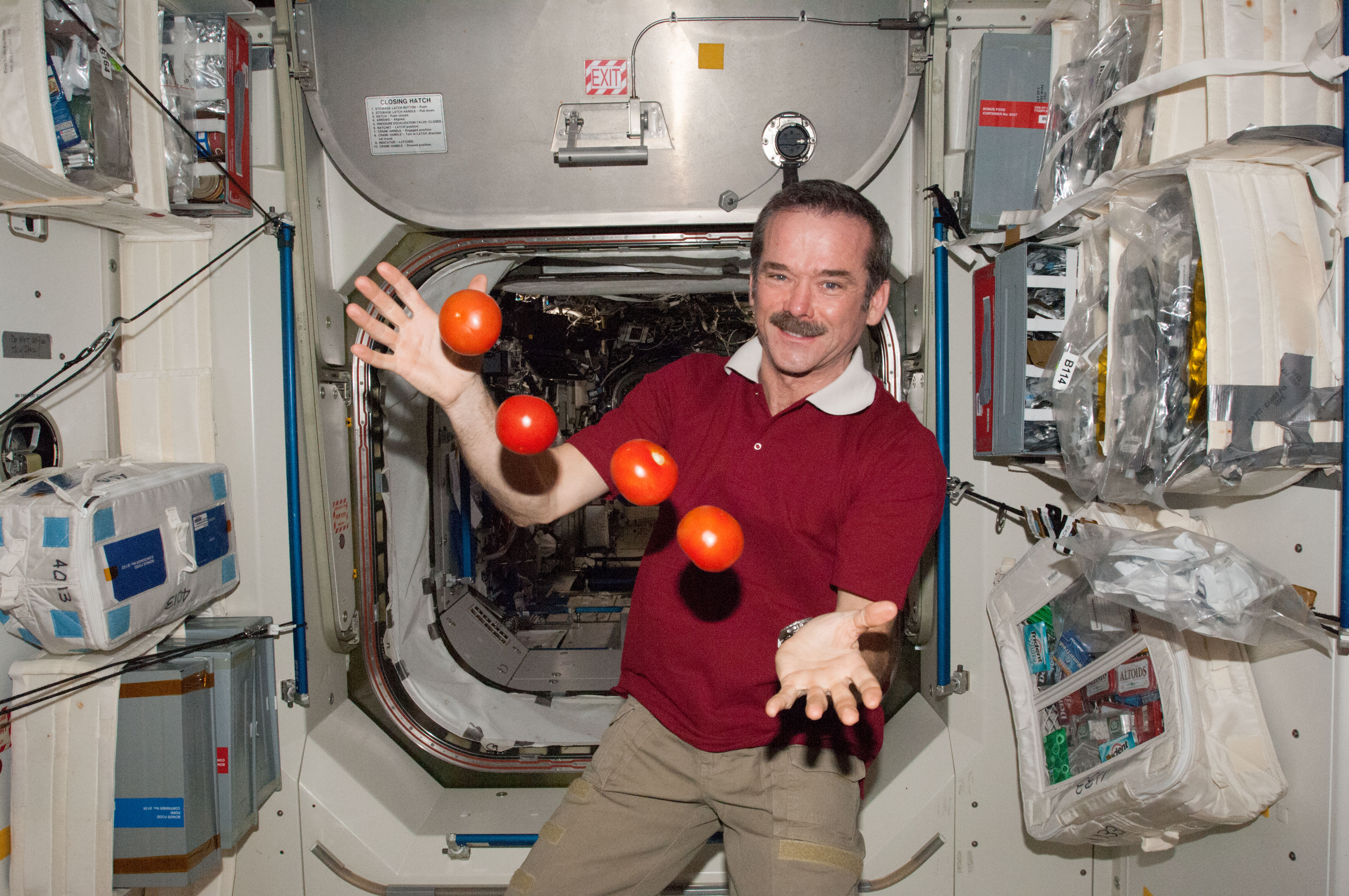 Taking advantage of a weightless environment onboard the Earth-orbiting International Space Station, Expedition 34 Flight Engineer Chris Hadfield of the Canadian Space Agency juggles some tomatoes, which he probably considers to be among the more delicious components of a recent "package" that arrived from Earth on March 3. The SpaceX Dragon 2 spacecraft brought up a large shipment of food and other supplies, and the spacecraft will remain docked to the station for three weeks. Hadfield is in Node 1 or Unity. The U.S. lab or Destiny is in the background.